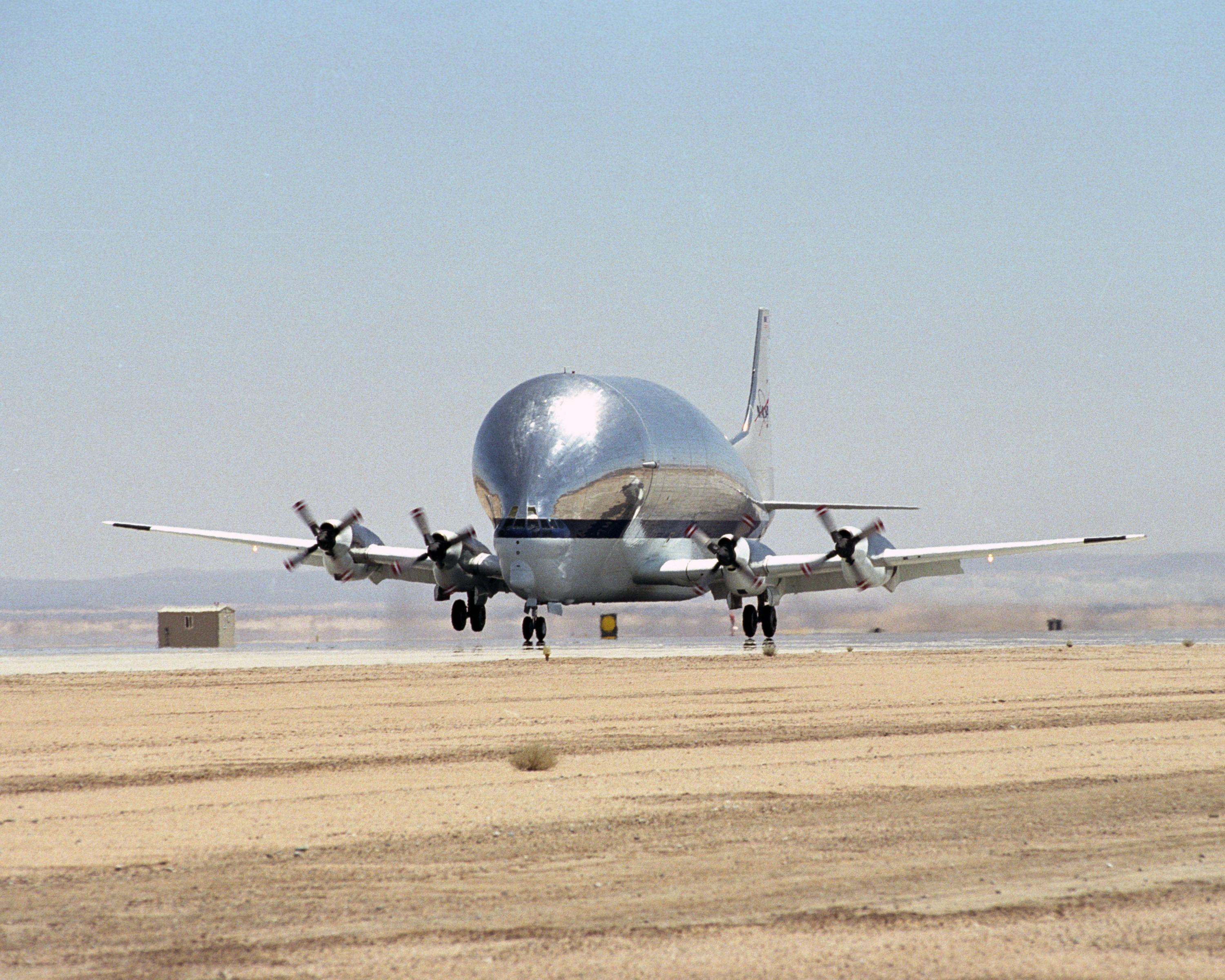 NASA's B377SGT Super Guppy Turbine cargo aircraft touches down at Edwards Air Force Base, Calif. on June 11, 2000 to deliver the latest version of the X-38 flight test vehicle to NASA's Dryden Flight Research Center.